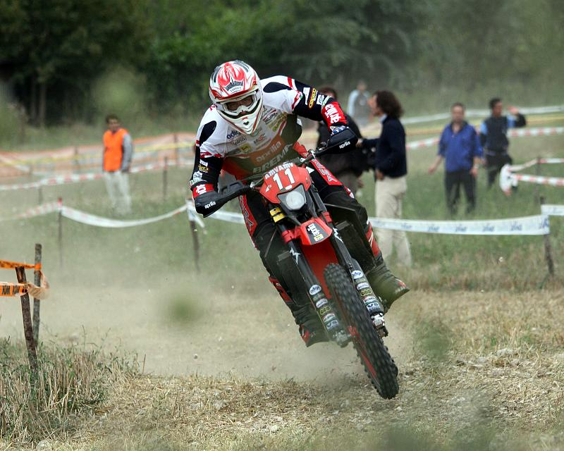 Nicolas Paganon riding his Aprilia E2 bike at the 2008 World Enduro Championship Grand Prix of Italy in Piediluco.